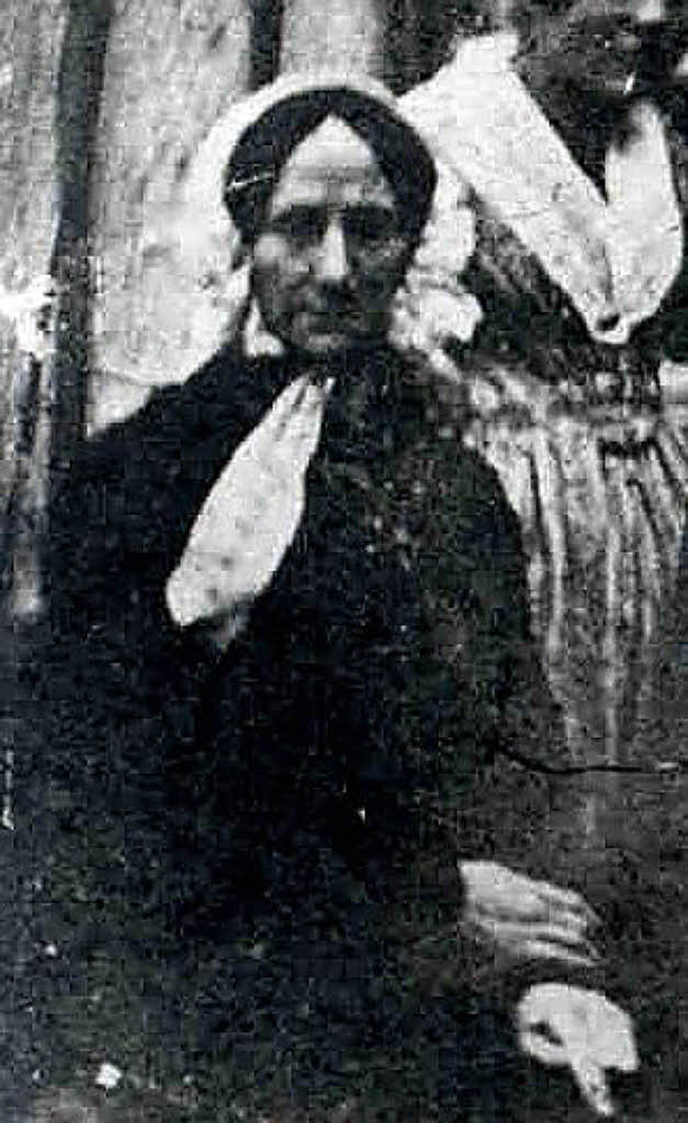 Foto/Photo von/of Constanze Mozart